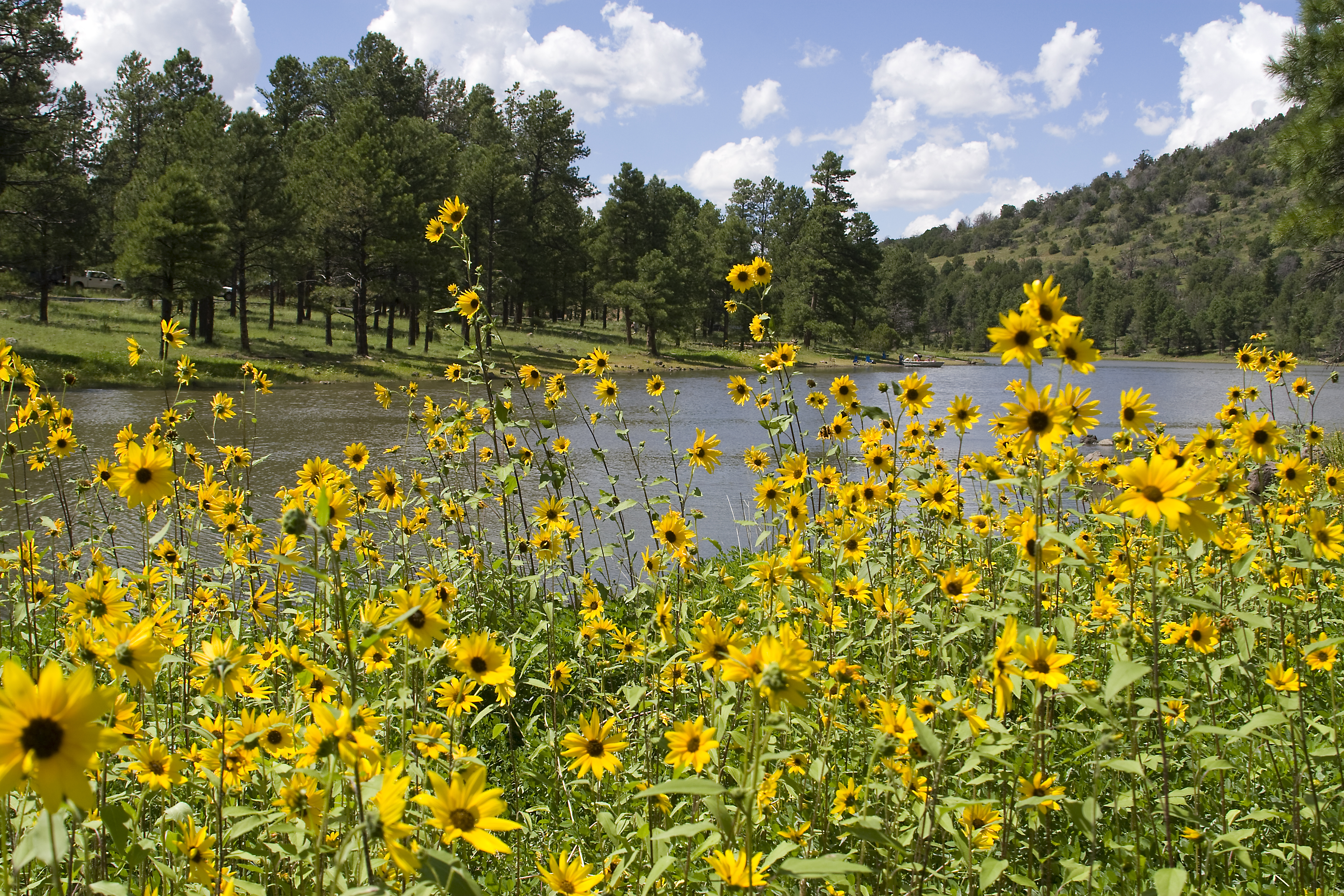 Photo of Kaibab Lake on the Williams Ranger District, Kaibab National Forest. Please give credit to: U.S. Forest Service, Southwestern Region, Kaibab National Forest.